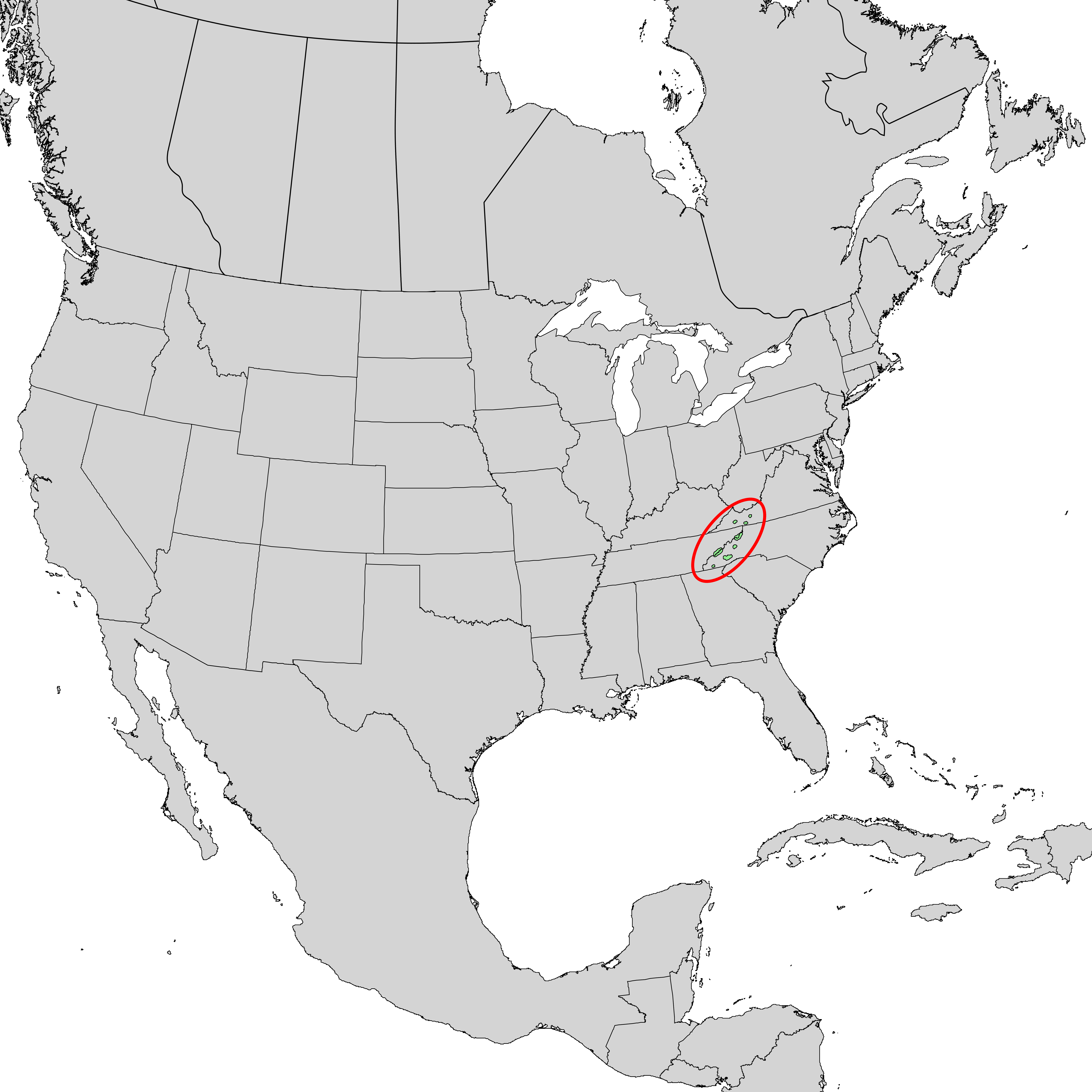 Distribution map for Abies fraseri (Pursh) Poir., 1817 - Fraser Fir